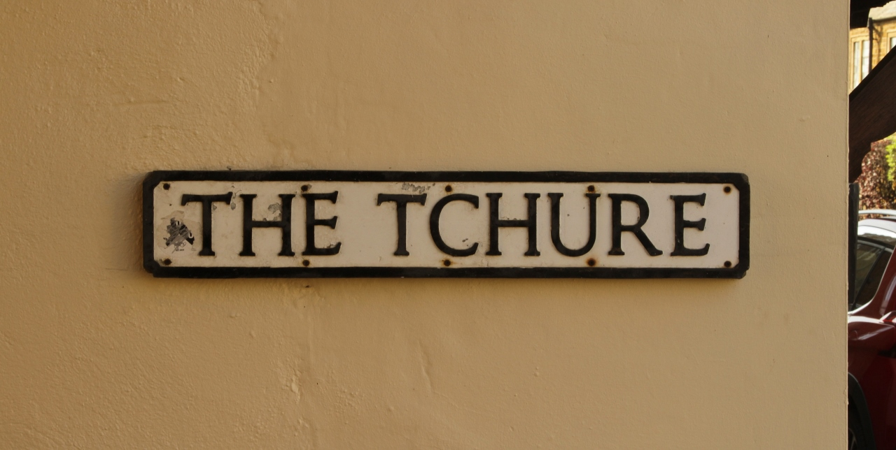 Street name sign at the west end of The Tchure alleyway, Deddington, Oxfordshire